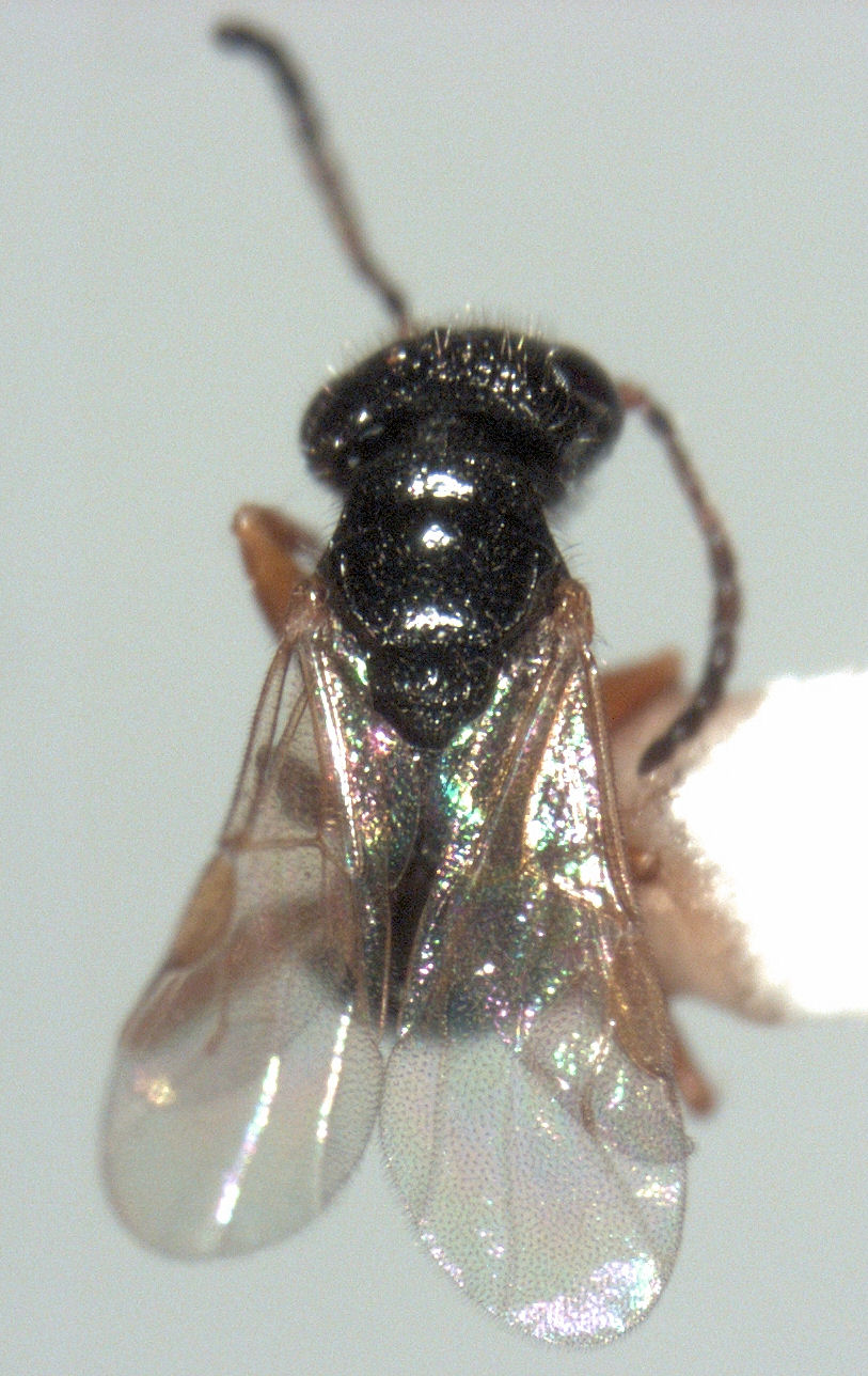 adult female Anteon caledonianum (dorsal)